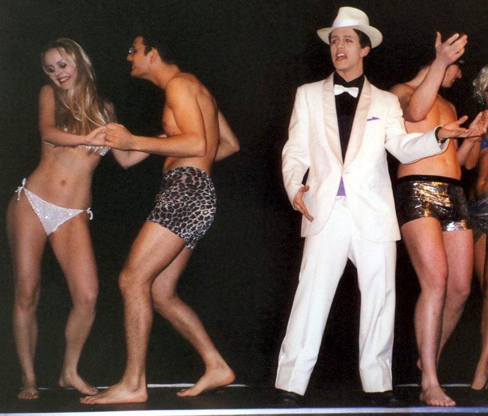 Patrik Hont sings "Havana for a Night" (cha-cha dancers l-r: Helena Mattsson, Donnie S. Ciurea & Magnus Sellén) in cabaret "Pre-Valentine's Day Love-In", as released by image creator F.U.S.I.A.Place: Blue Moon Bar, Kungsgatan 18, Stockholm, Sweden